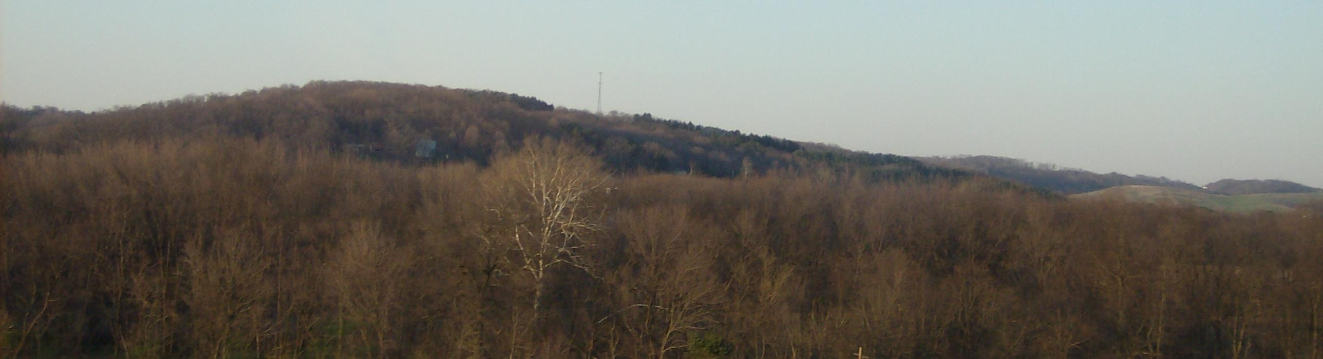 View of countryside in North Sewickley Township, Beaver County, Pennsylvania, United States. Picture taken from along Pennsylvania Route 588.